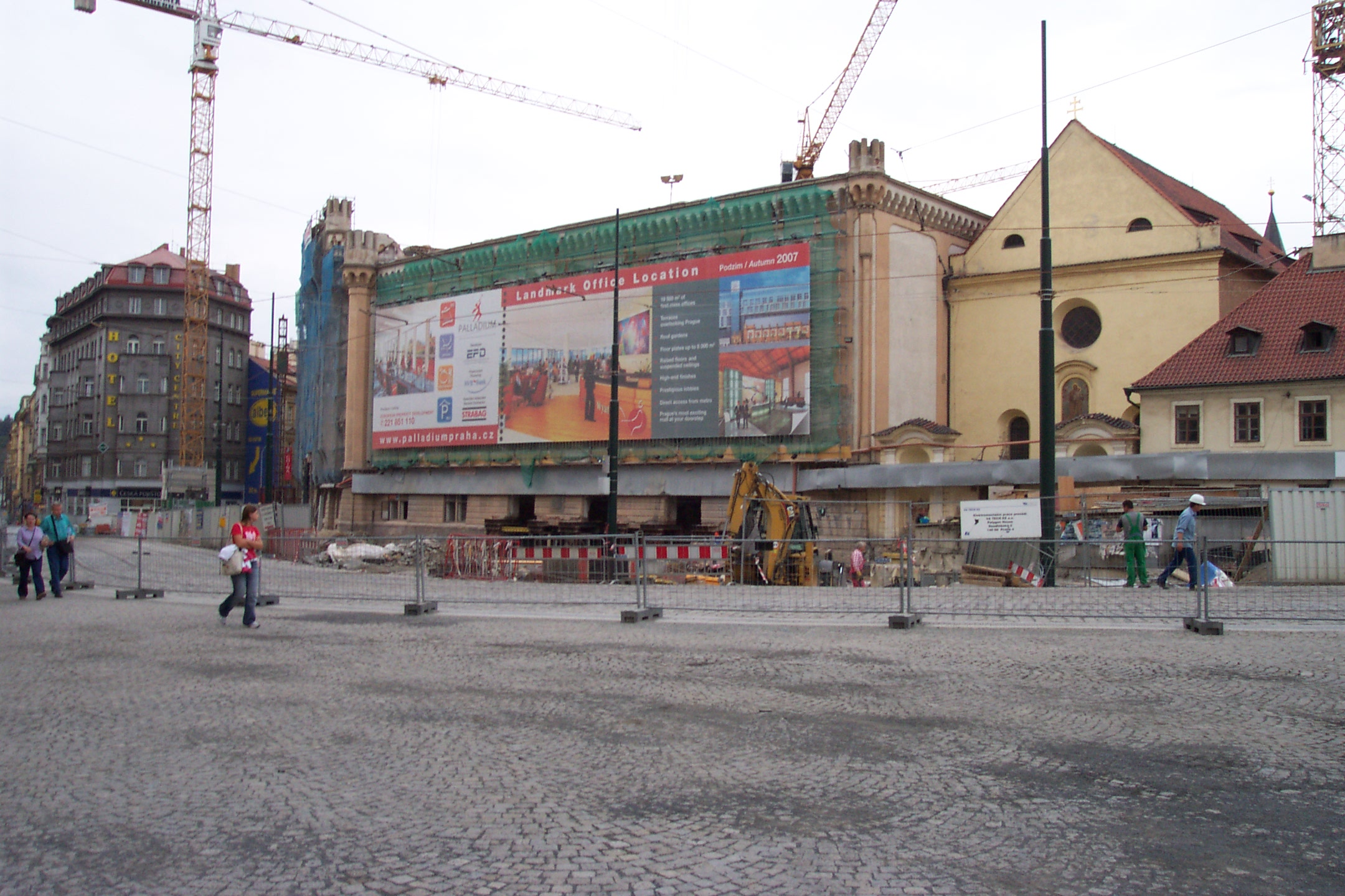 Republic's square under reconstruction